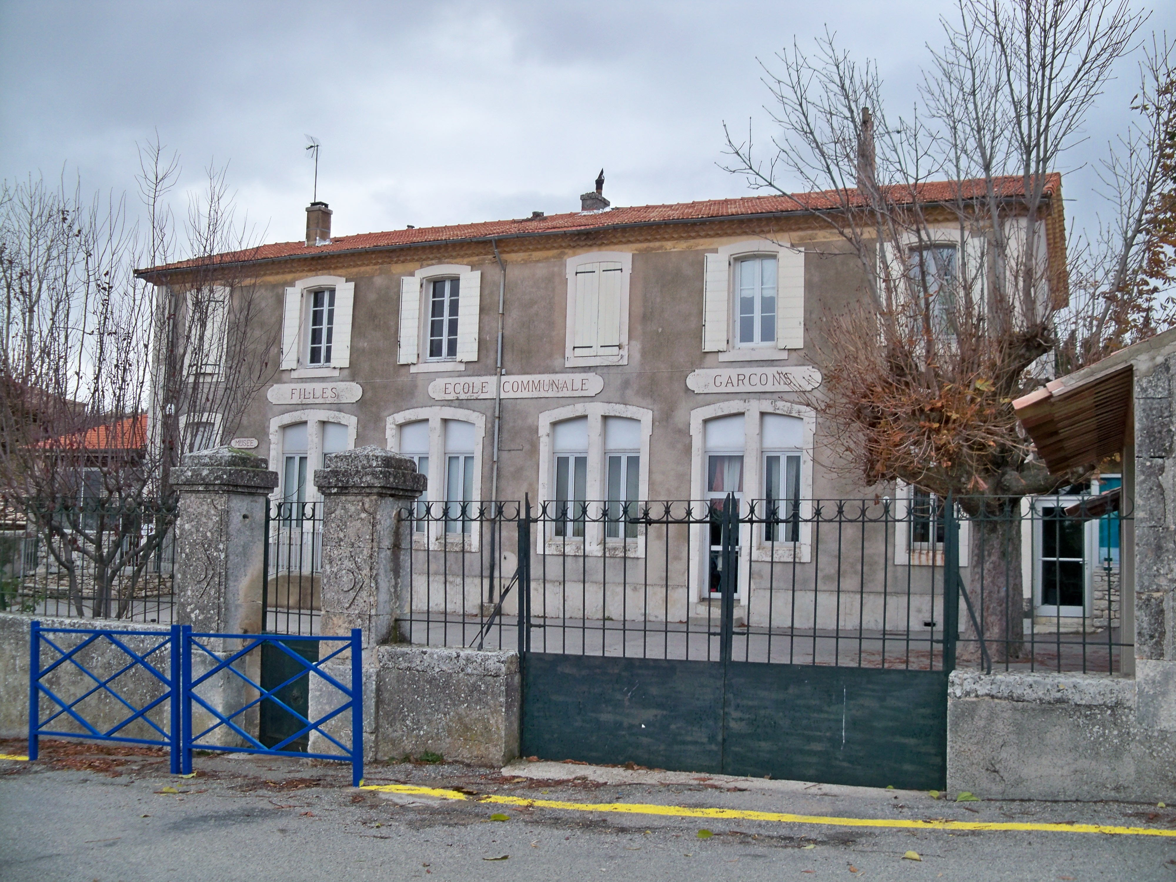 School in Vachères (Alpes de Hautres Provence, France)